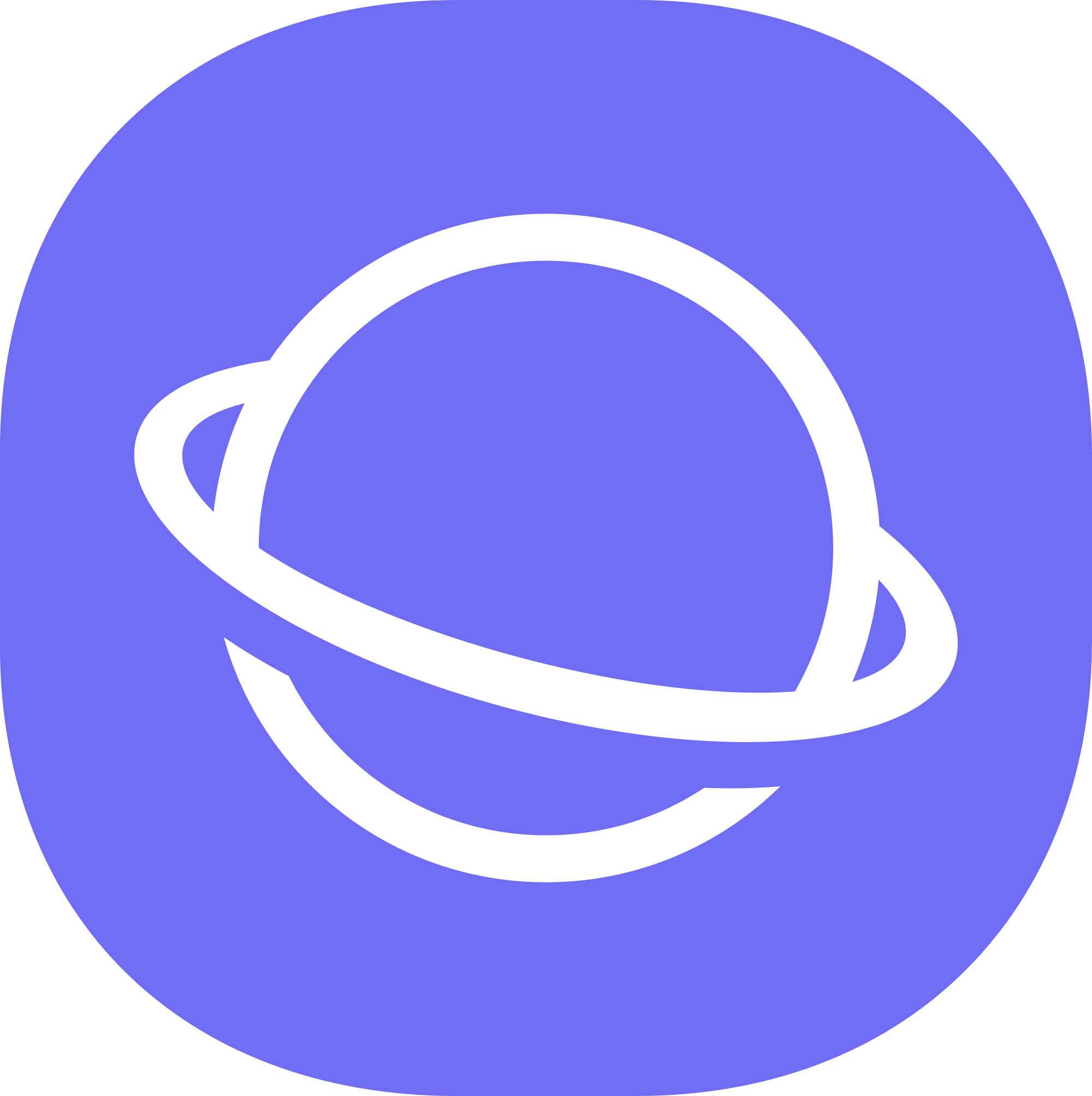 Samsung Internet Logo